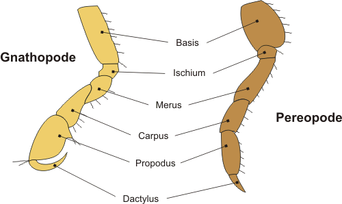 General layout of amphipod legs